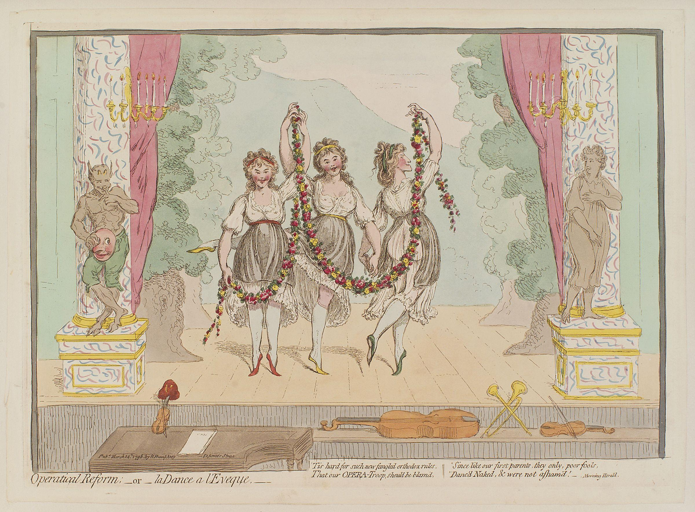 Operatical reform; - or - la dance a l'eveque' (Rose Didelot), by James Gillray (died 1815), published 1798. All images in this batch have been confirmed as author died before 1939 according to the official death date listed by the NPG.